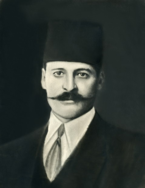 Arslan Toğuz